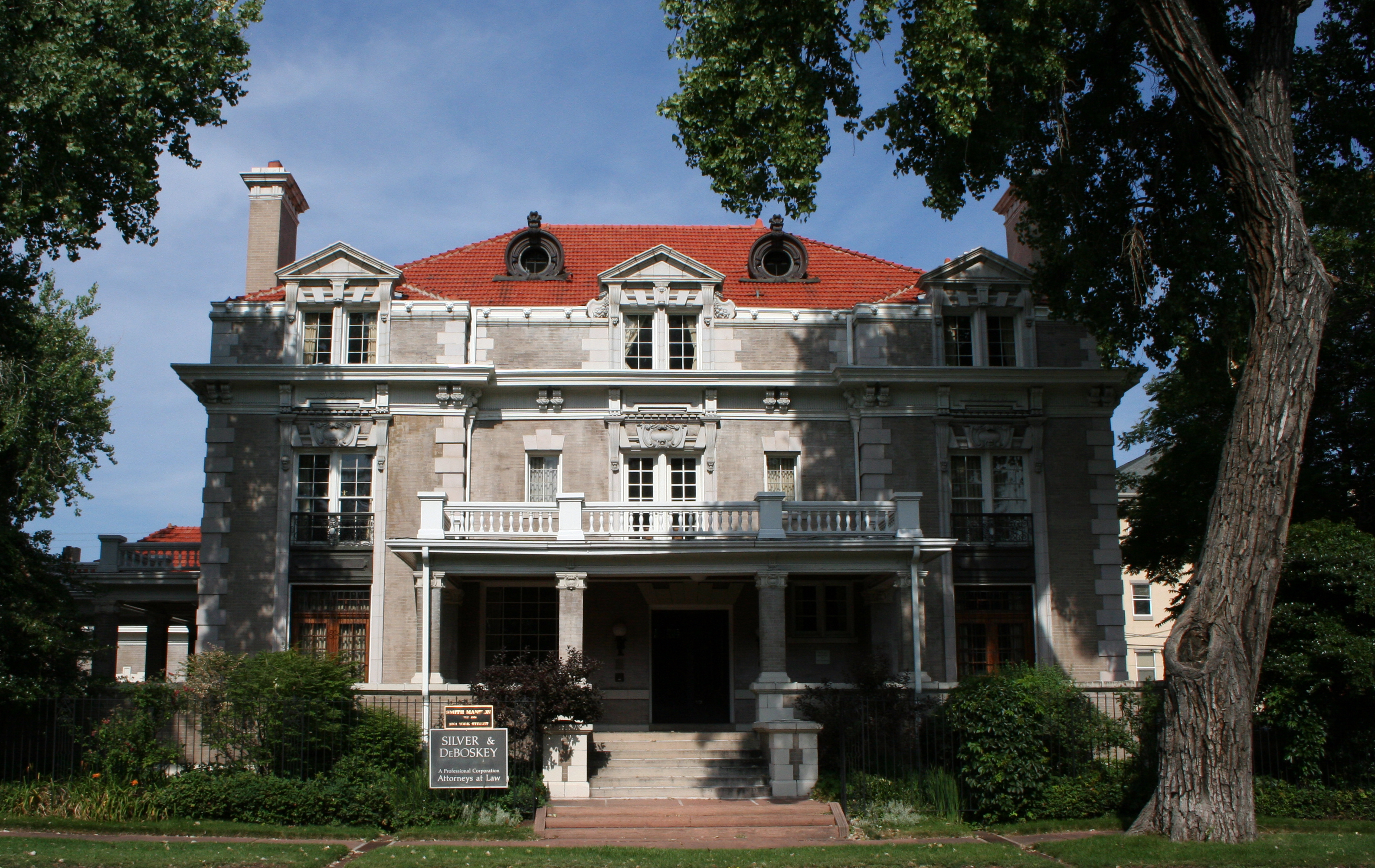 The Smith House, located at 1801 York Street in Denver, Colorado